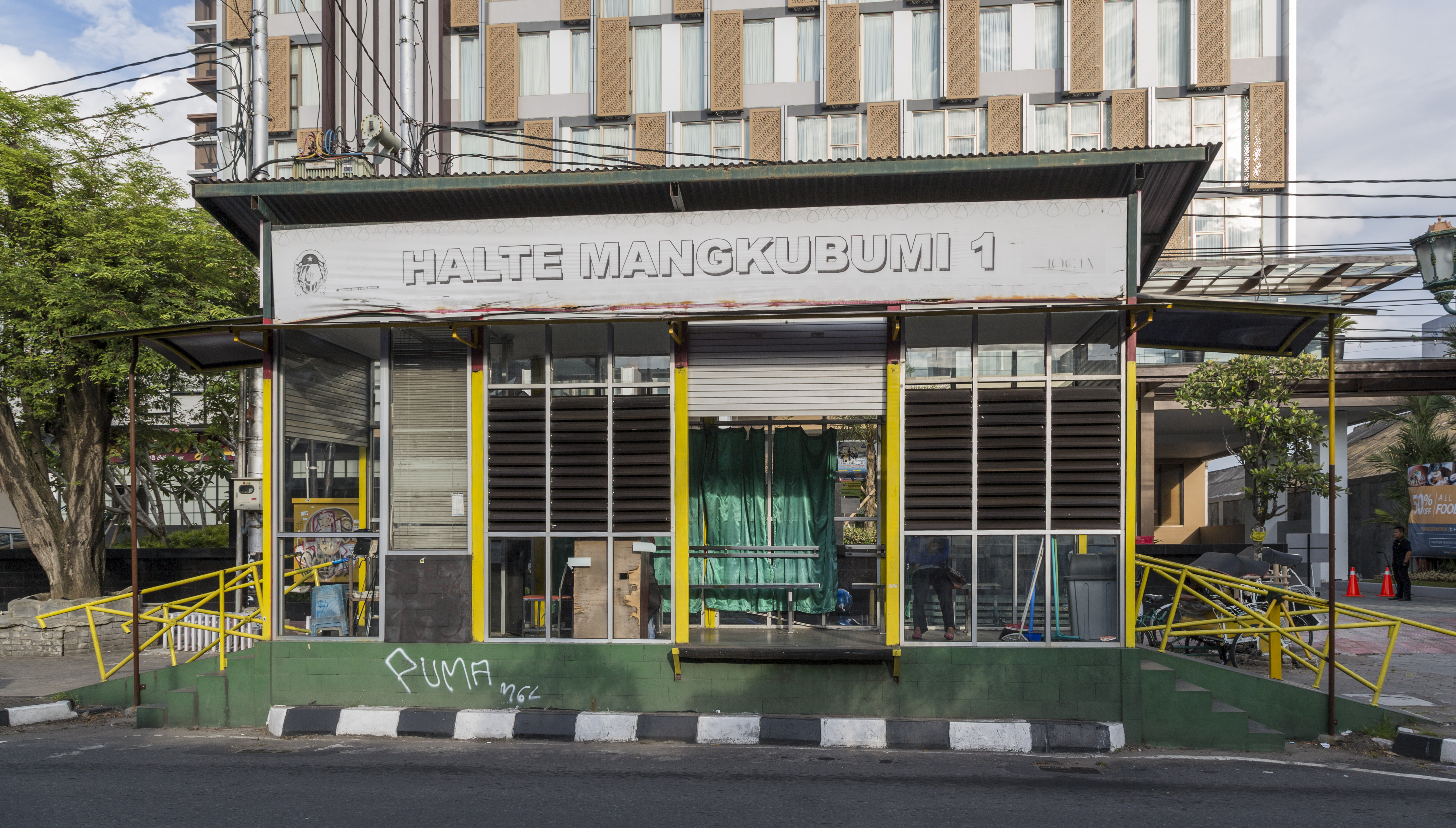 Yogyakarta, Indonesia: Mangkubumi 1 bus station.